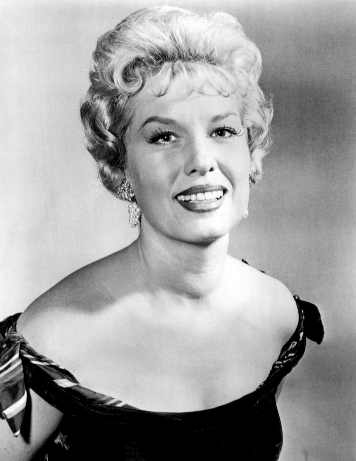 Photo of Jean Willes from a guest appearance on Maverick.